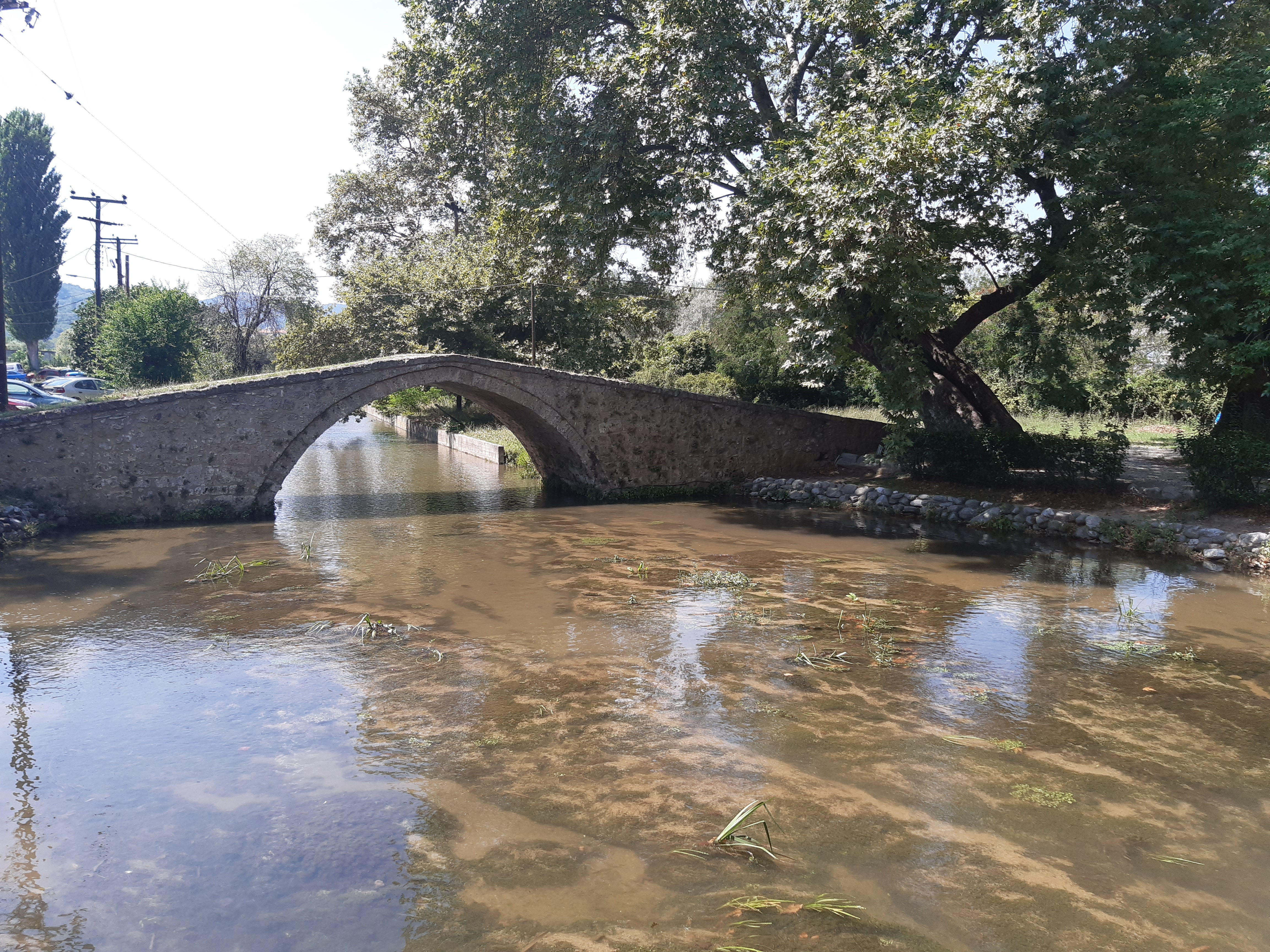 Kioupri, Edessa